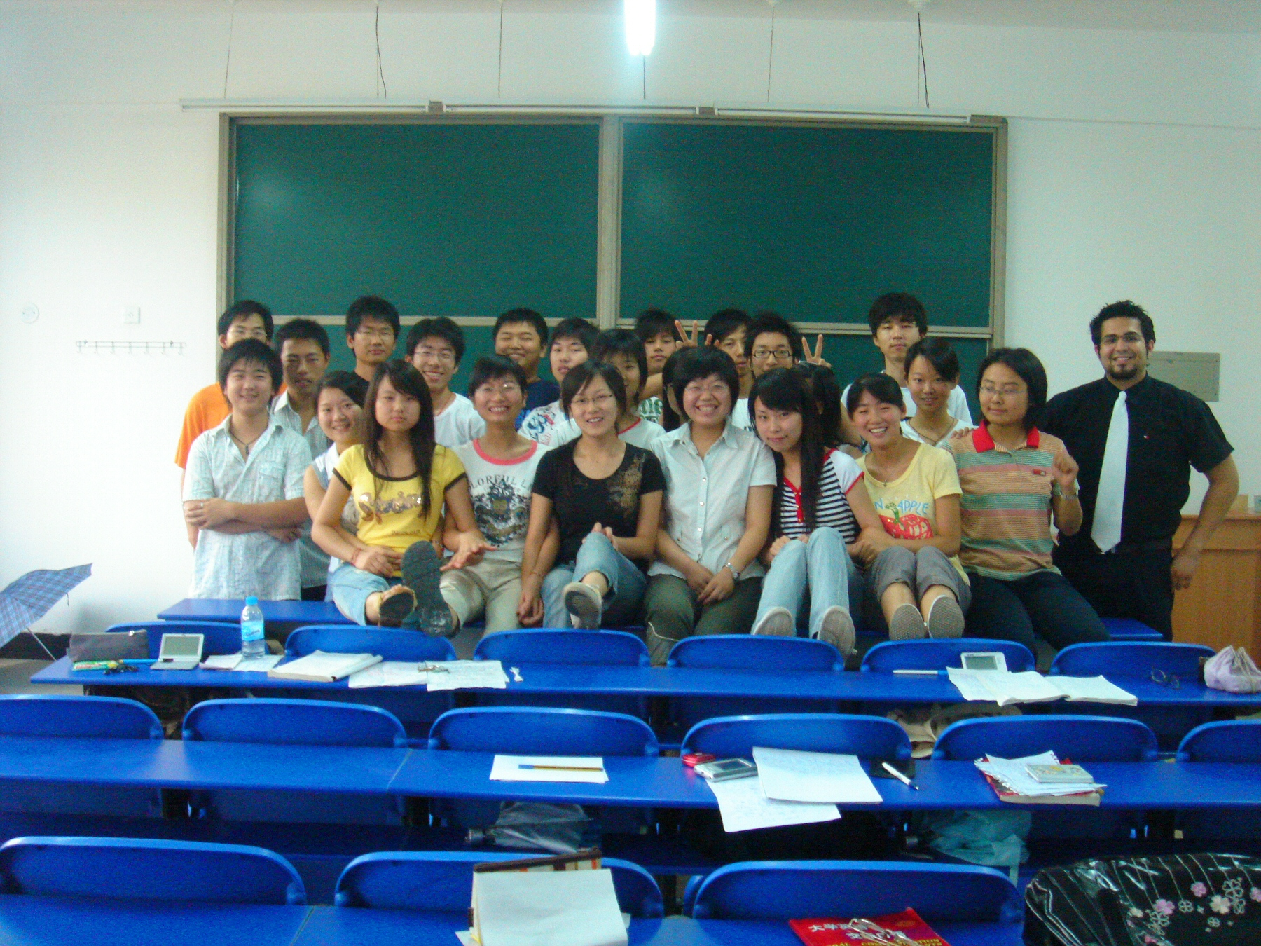 Foreign Teacher with students.